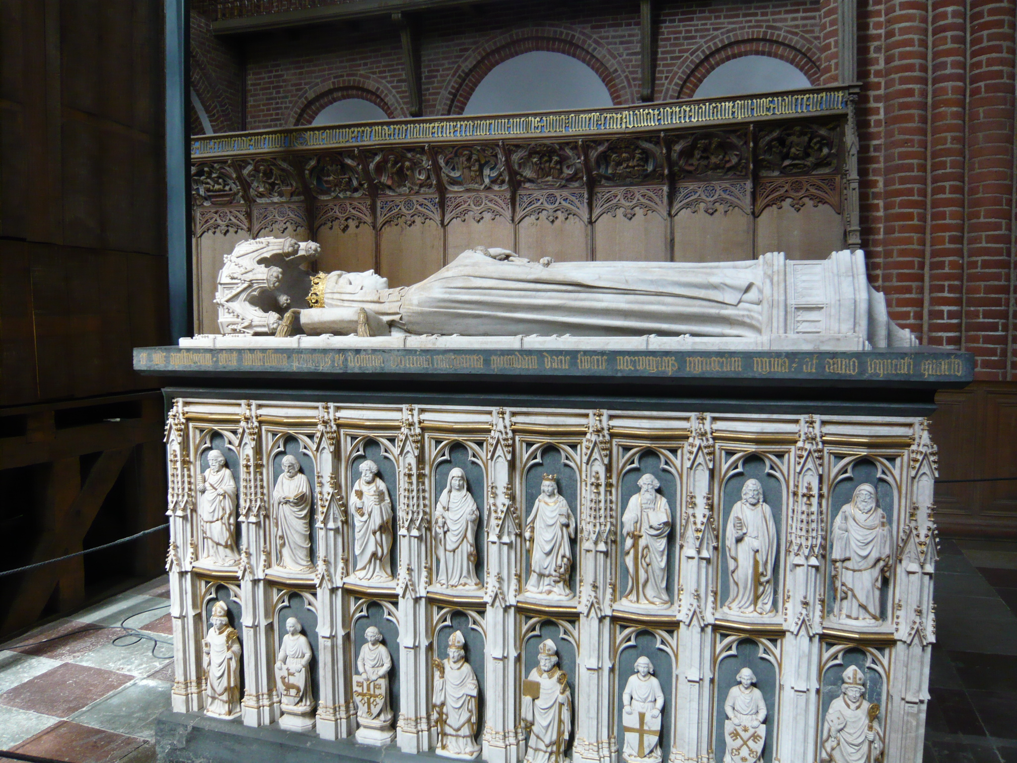 The sarcophagus of Margaret I of Denmark (1353-1412).